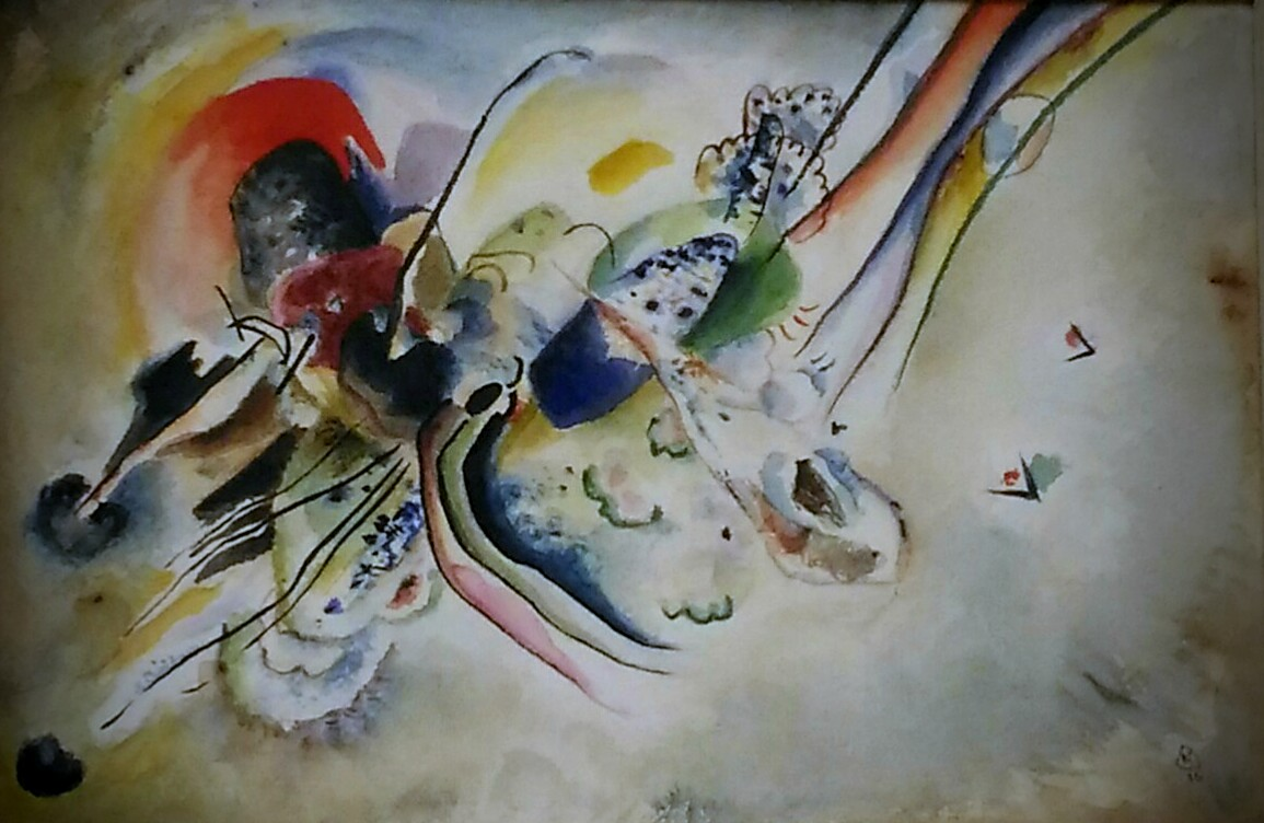 Composizione di Kandinskji This file was uploaded via Mobile Android App 1.28.